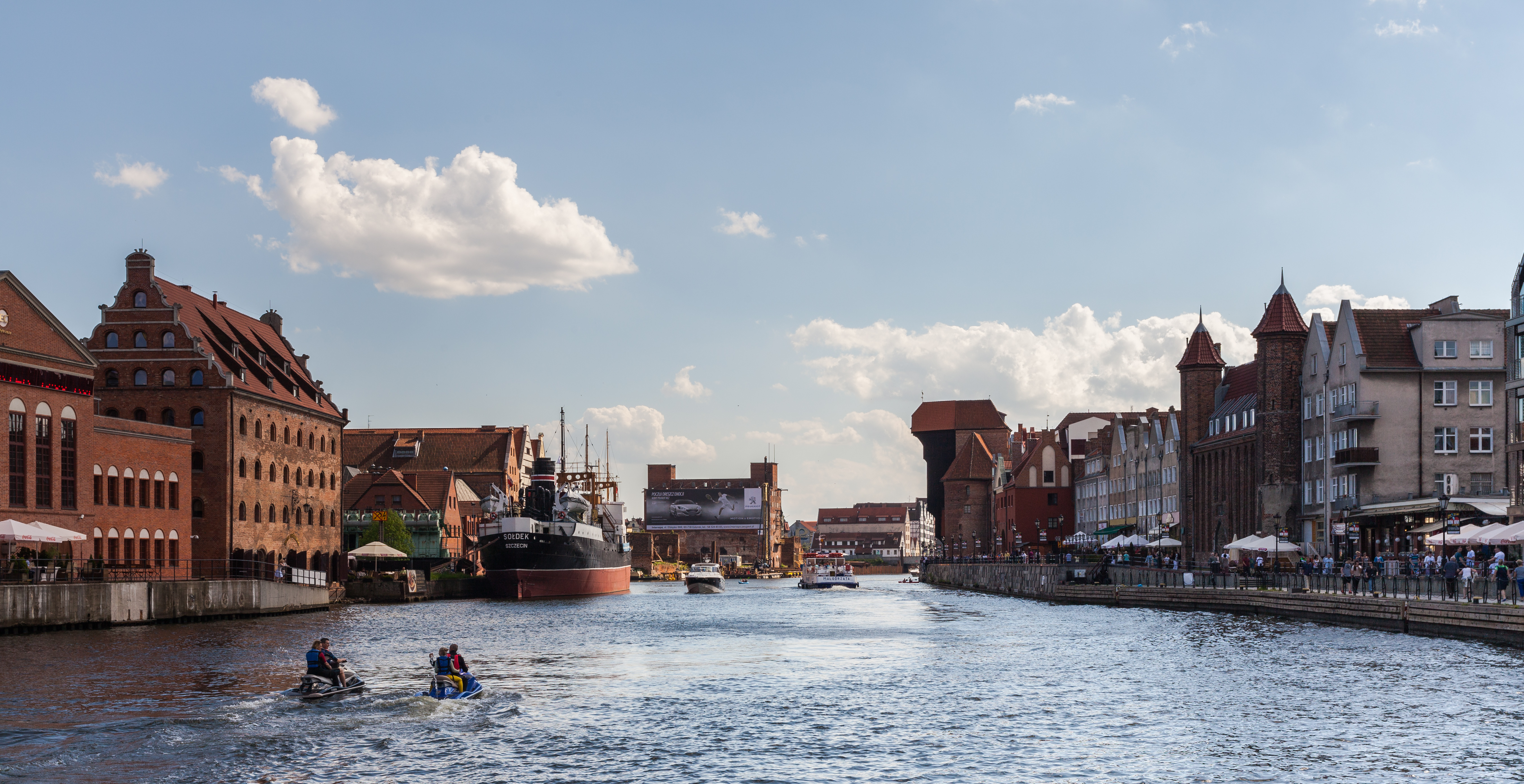 Dlugie Pobrzeze St., Gdansk, Poland Żuraw Gate and river Motława